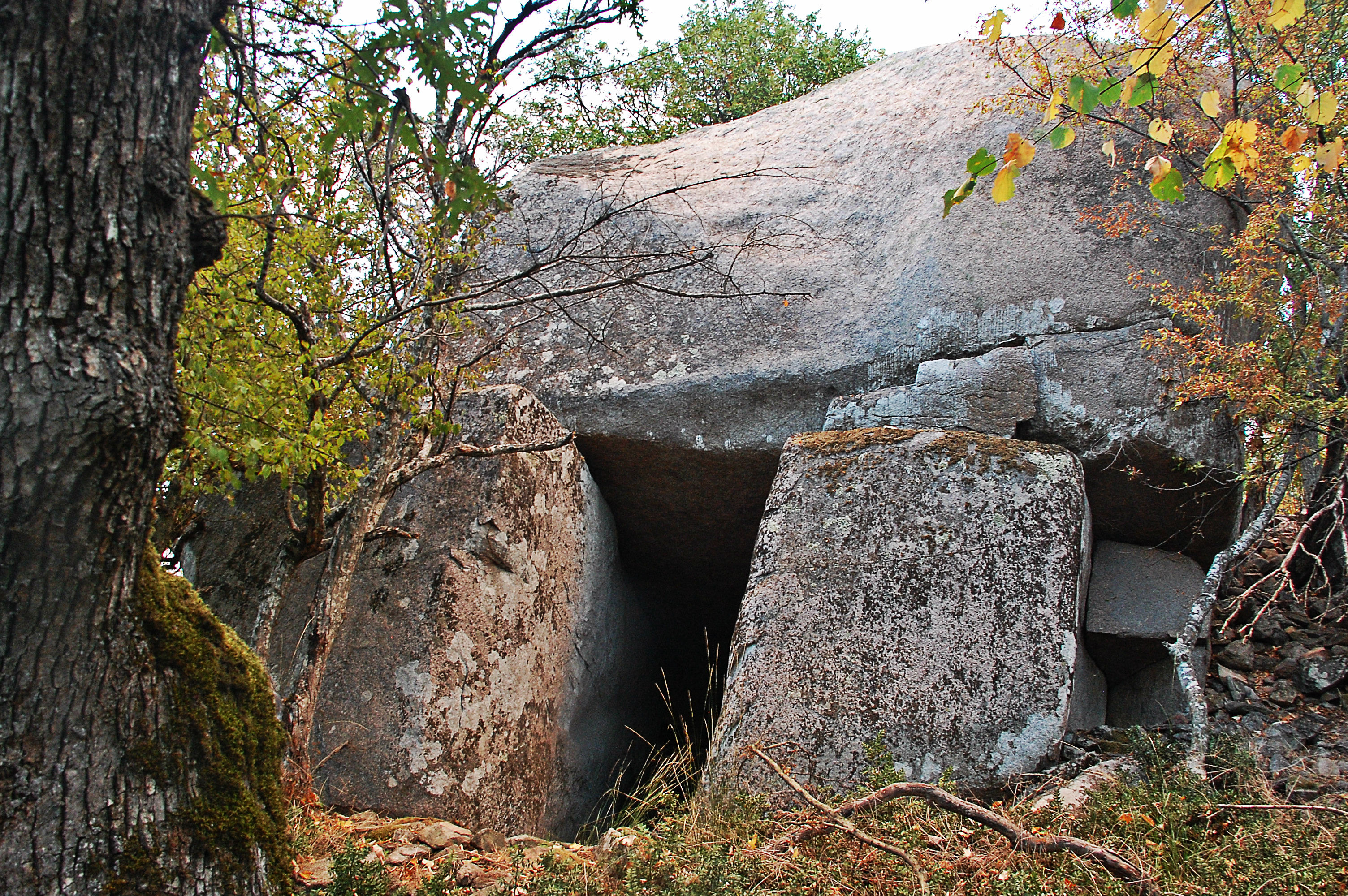 големият долмен